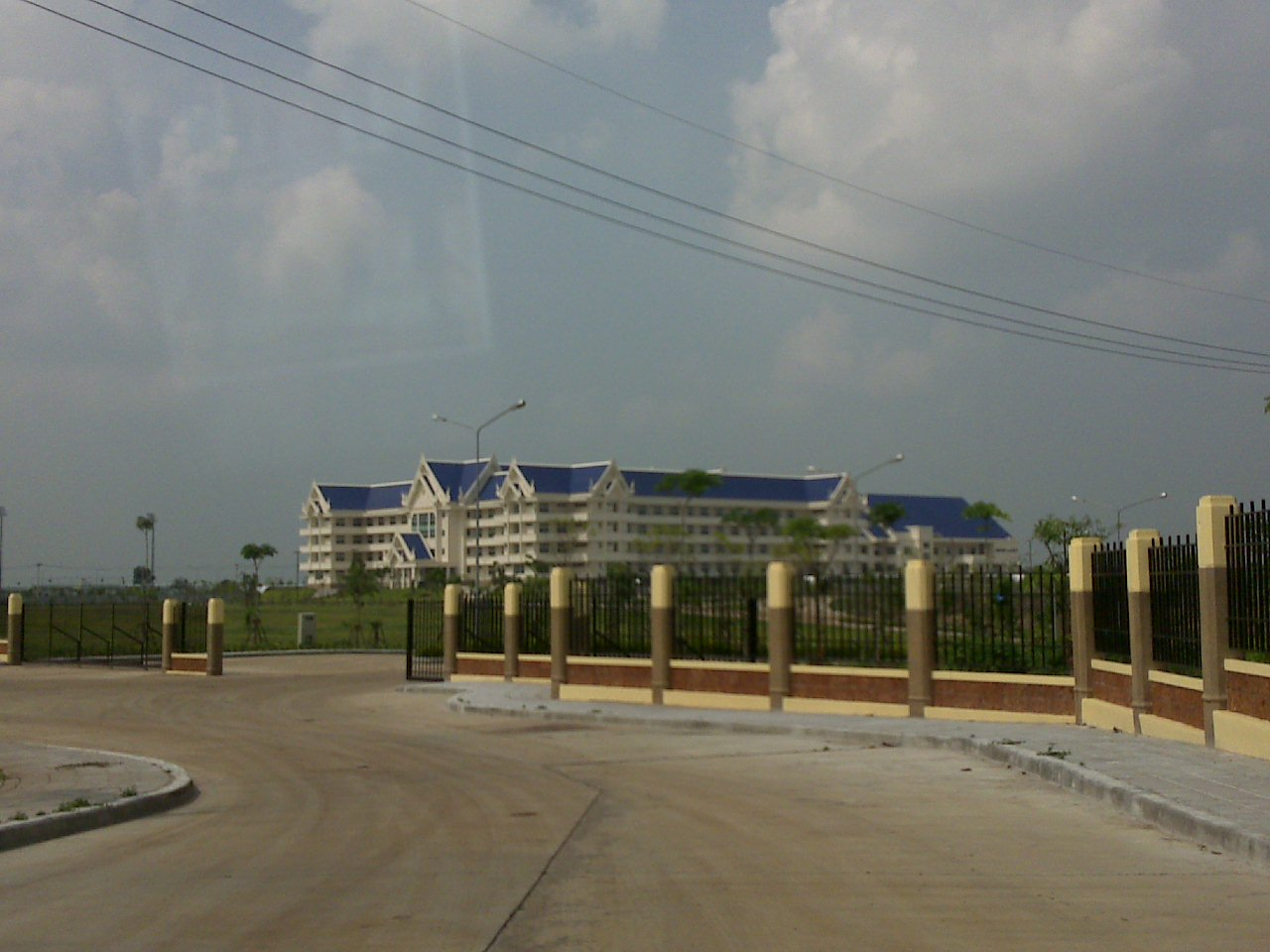 New Buriram town hall,Thailand